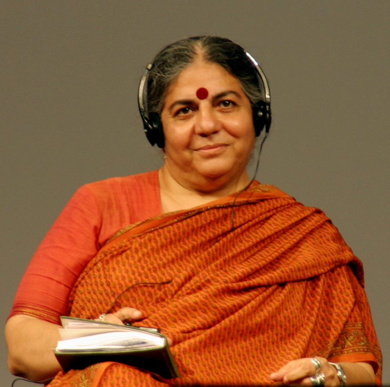 Vandana Shiva, Right Livelihood Award 1993, at the Deutscher Evangelischer Kirchentag 2007 in Cologne